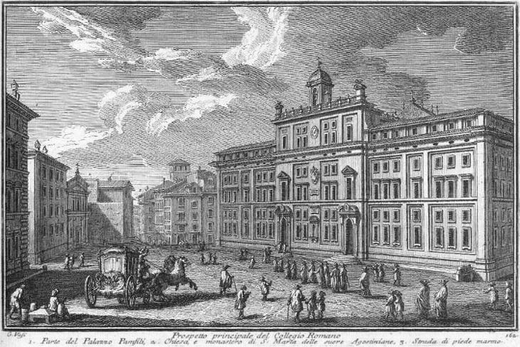 1) Part of Palazzo Pamphilj; 2) S. Marta; 3) Street leading to Piè di Marmo (and S. Maria sopra Minerva).